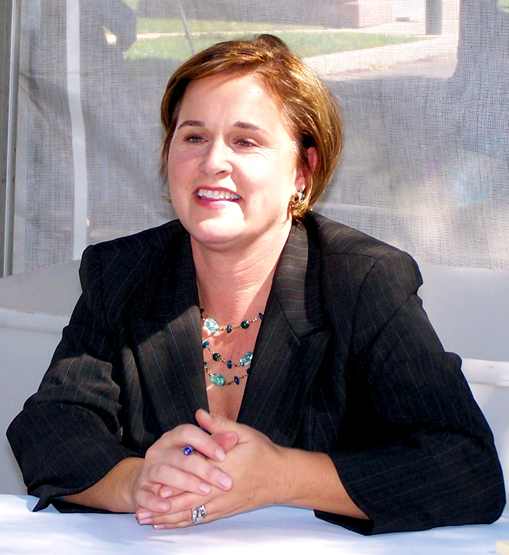 Dorothy "Doro" Bush Koch at the 2006 Texas Book Festival, Austin, Texas, United States promoting her book My Father, My President: A Personal Account of the Life of George H.W. Bush.